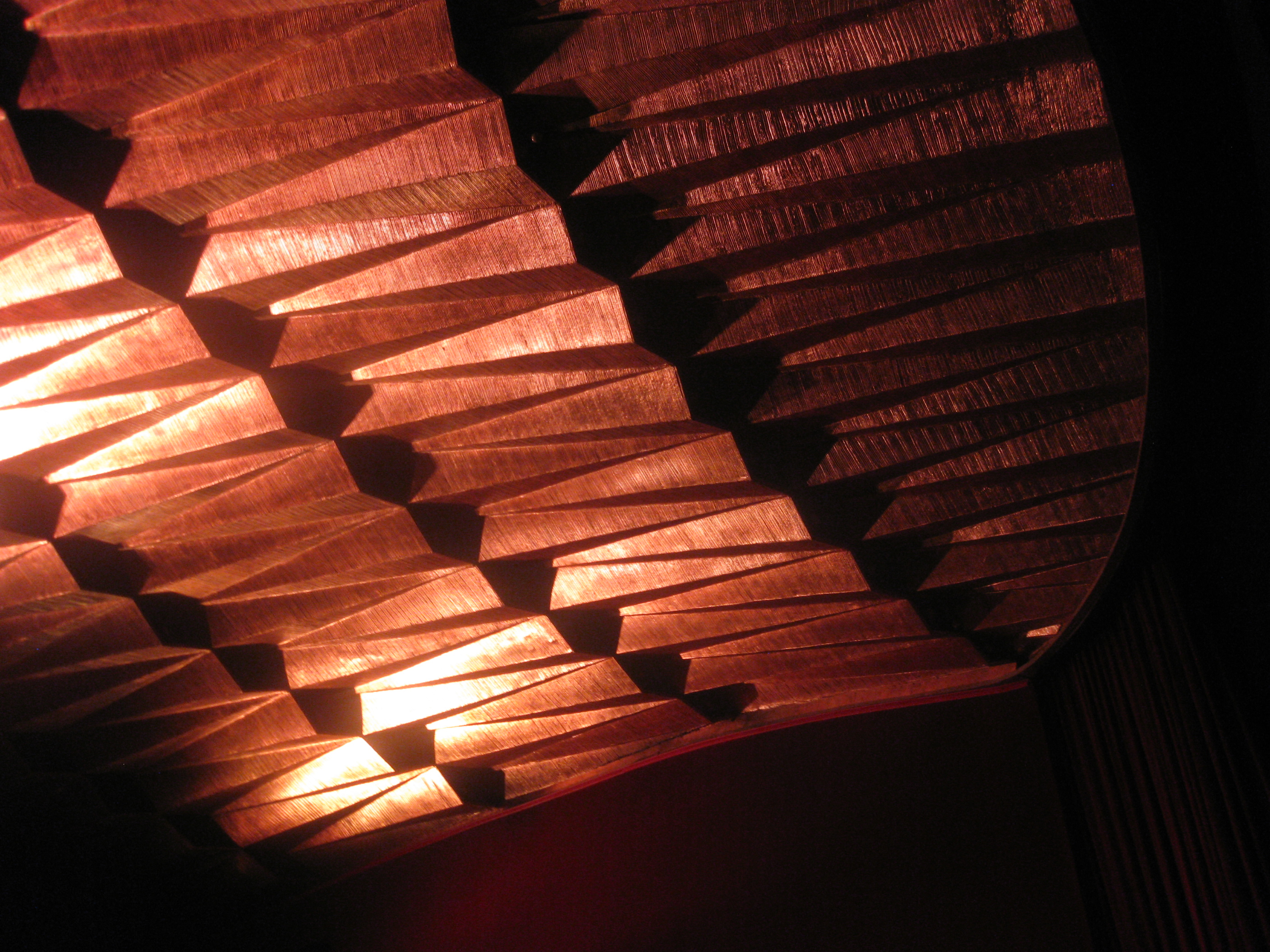 Ceeling of the Kaskade Cinema in Kassel. The building was designed by Paul Bode